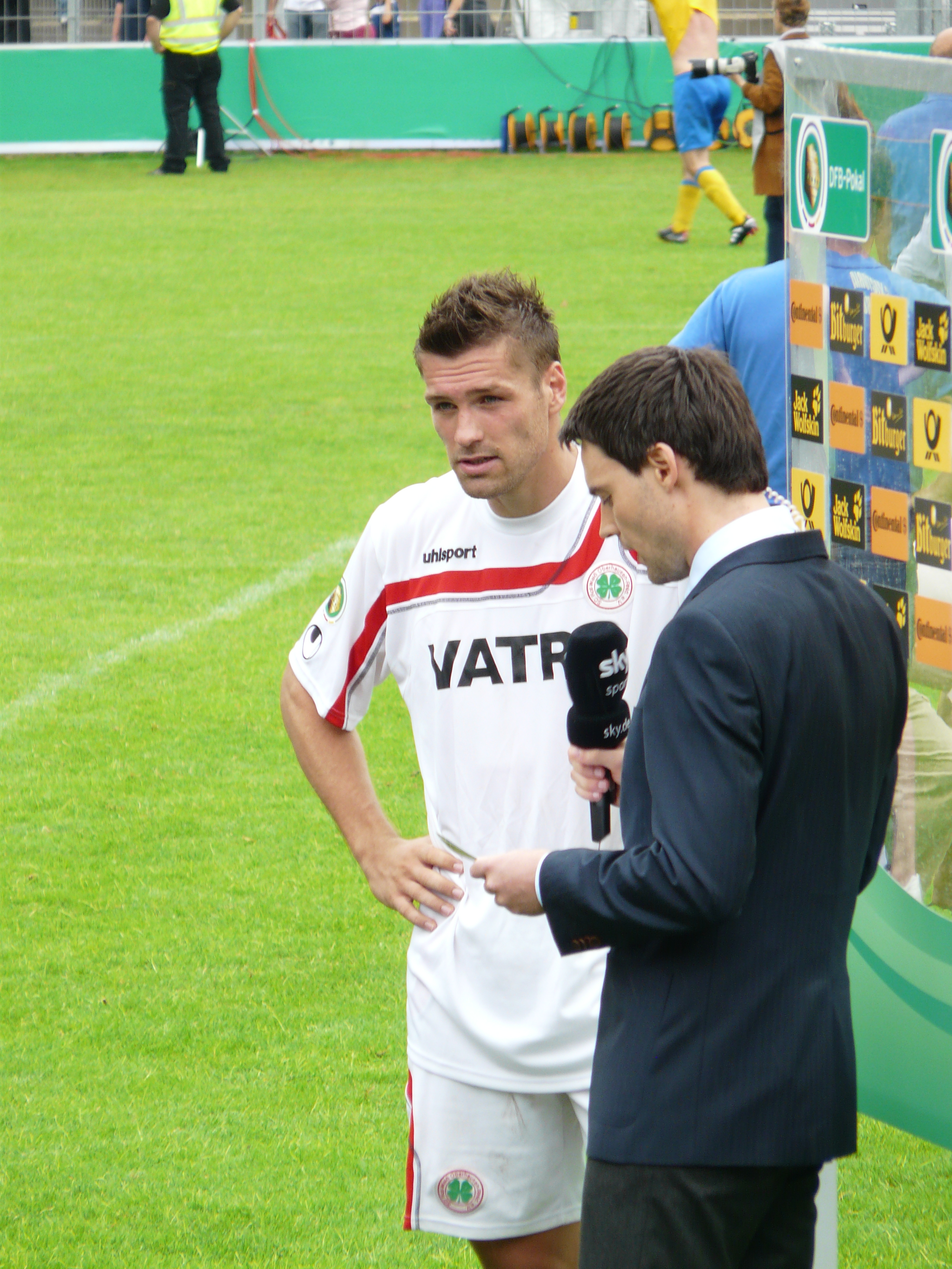 Ronny König as Player from RW Oberhausen